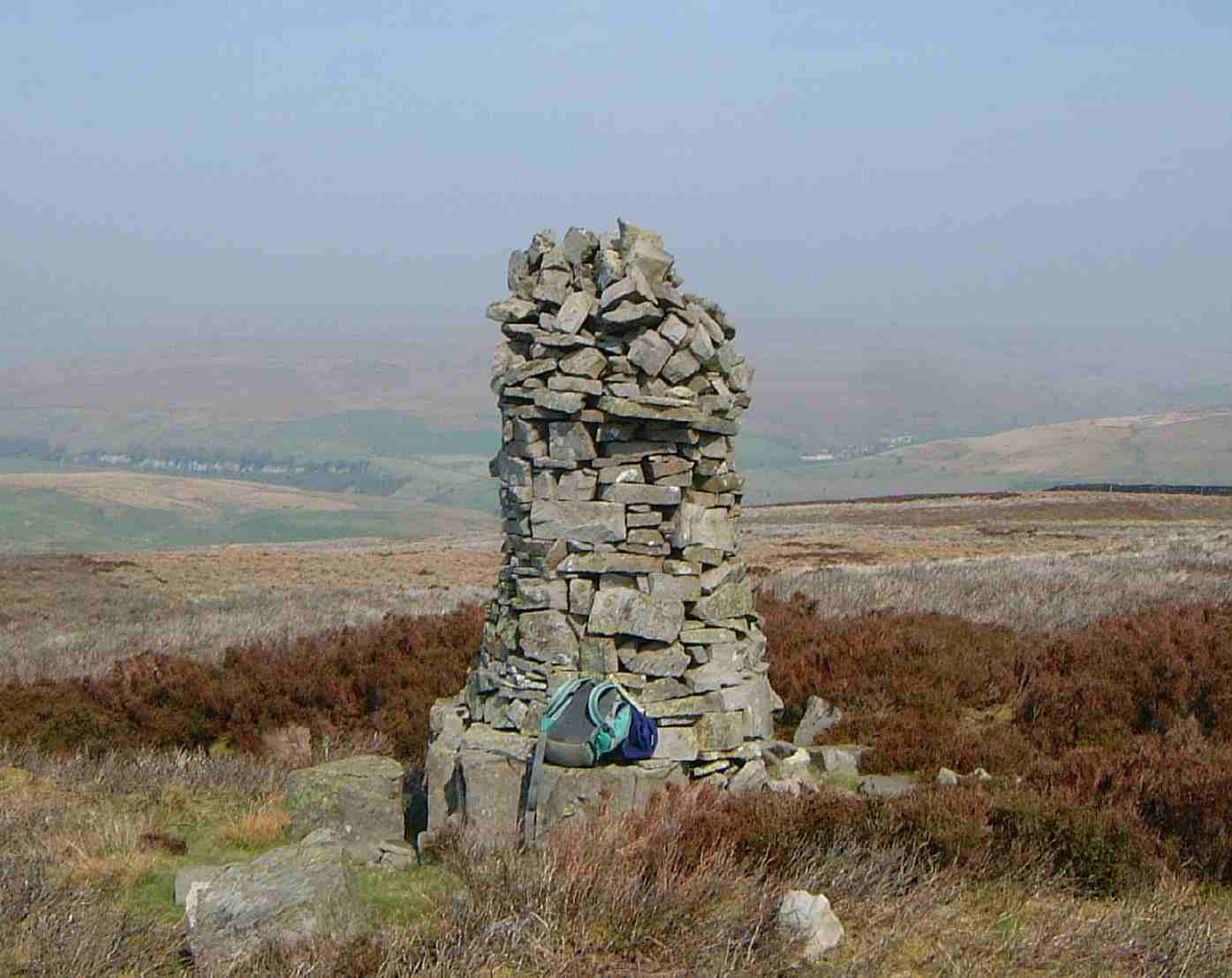 Kisdon’s 2.5 metre high summit cairn. Personal photograph taken by Mick Knapton on May 8th 2006